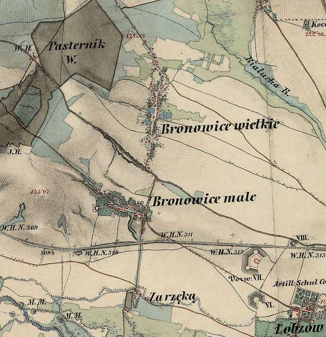 Bronowice Małe and Wielkie on an austrian map from around 1855